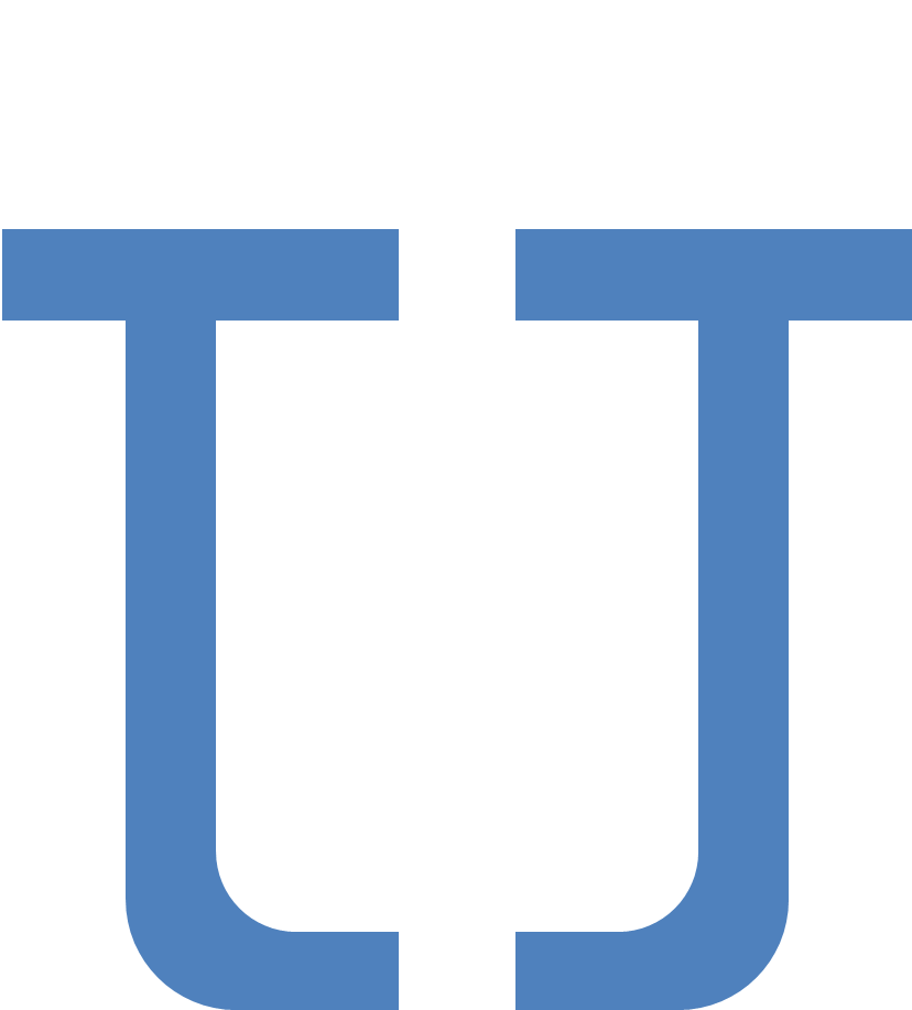 Plan of a typical Long Axis milecastle on Hadrian's Wall